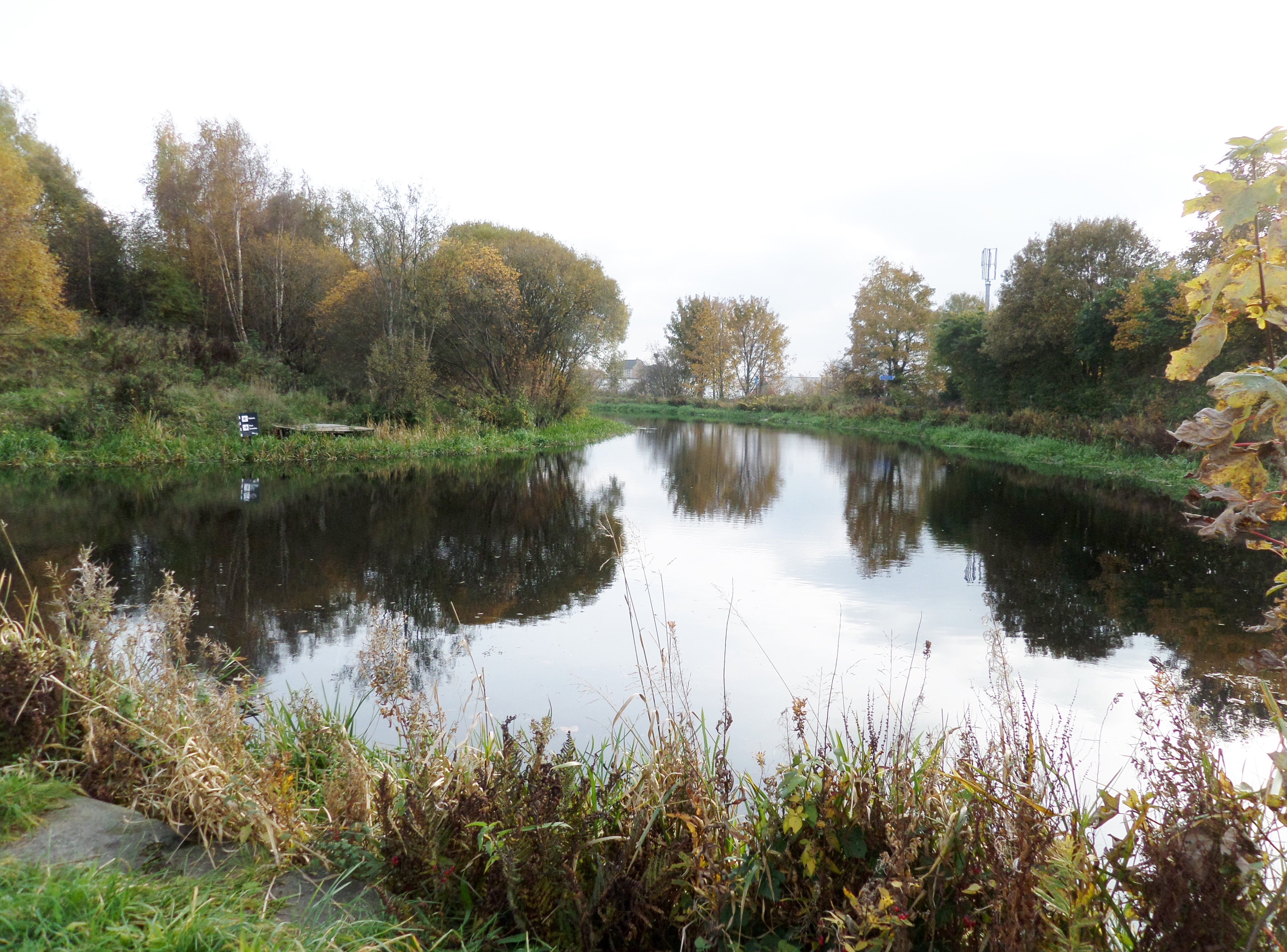 Stockingfield Junction, Forth and Clyde Canal, Glasgow, Scotland. View towards Port Dundas.